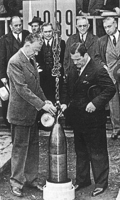 1939 Time Capsule "Cupaloy" from New York World's Fair